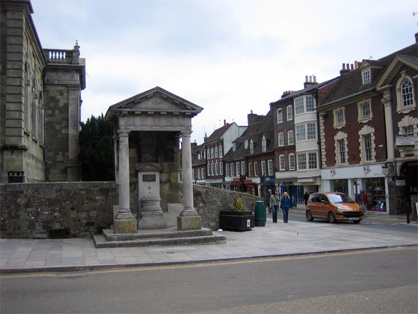 Fire Monument, Blandford Forum. The Bastard brothers, John and William, local architects, entrepreneurs and politicians, were responsible for the rebuilding programme after the fire of 1731. The completion of the programme was commemorated by the erection of the Fire Monument. Designed and paid for by John Bastard and located on the eastern side of the market place in 1760, it stands "in grateful Acknowledgement of the Divine Mercy, that has raised this Town, like a phoenix from its ashes, to its present beautiful and flourishing State."